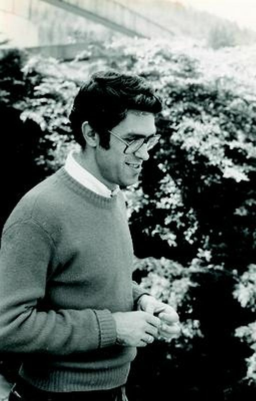 John Erik Fornaess (Fornæss)